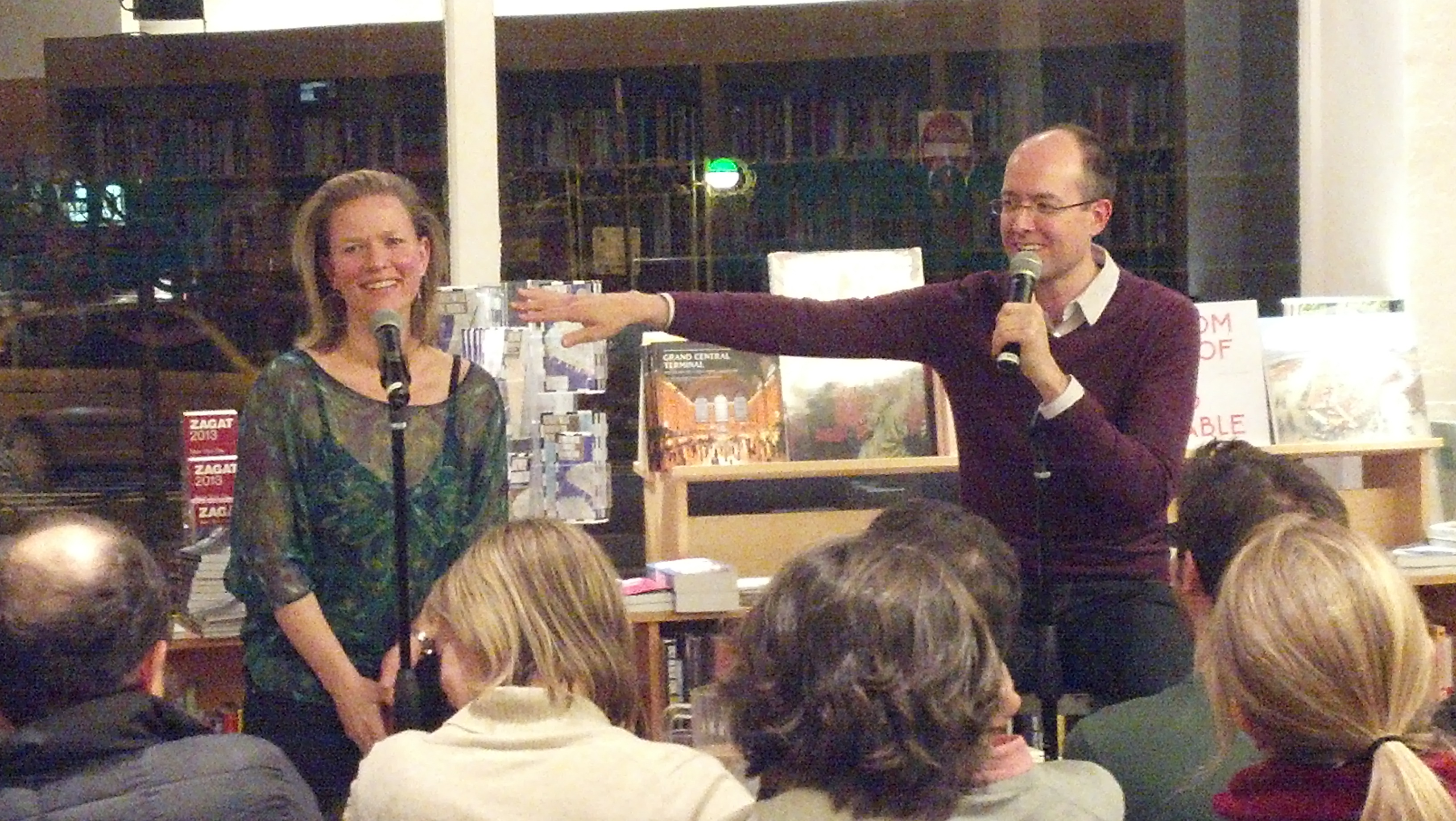 Amity Gaige and Adam Haslett in conversation at Greenlight Bookstore in Brooklyn, NY (February 28, 2013)